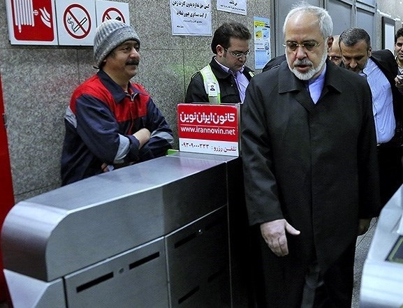 Iranian Foreign Minister, Mohammad Javad Zarif departures to his office by using metro in national healthy air day